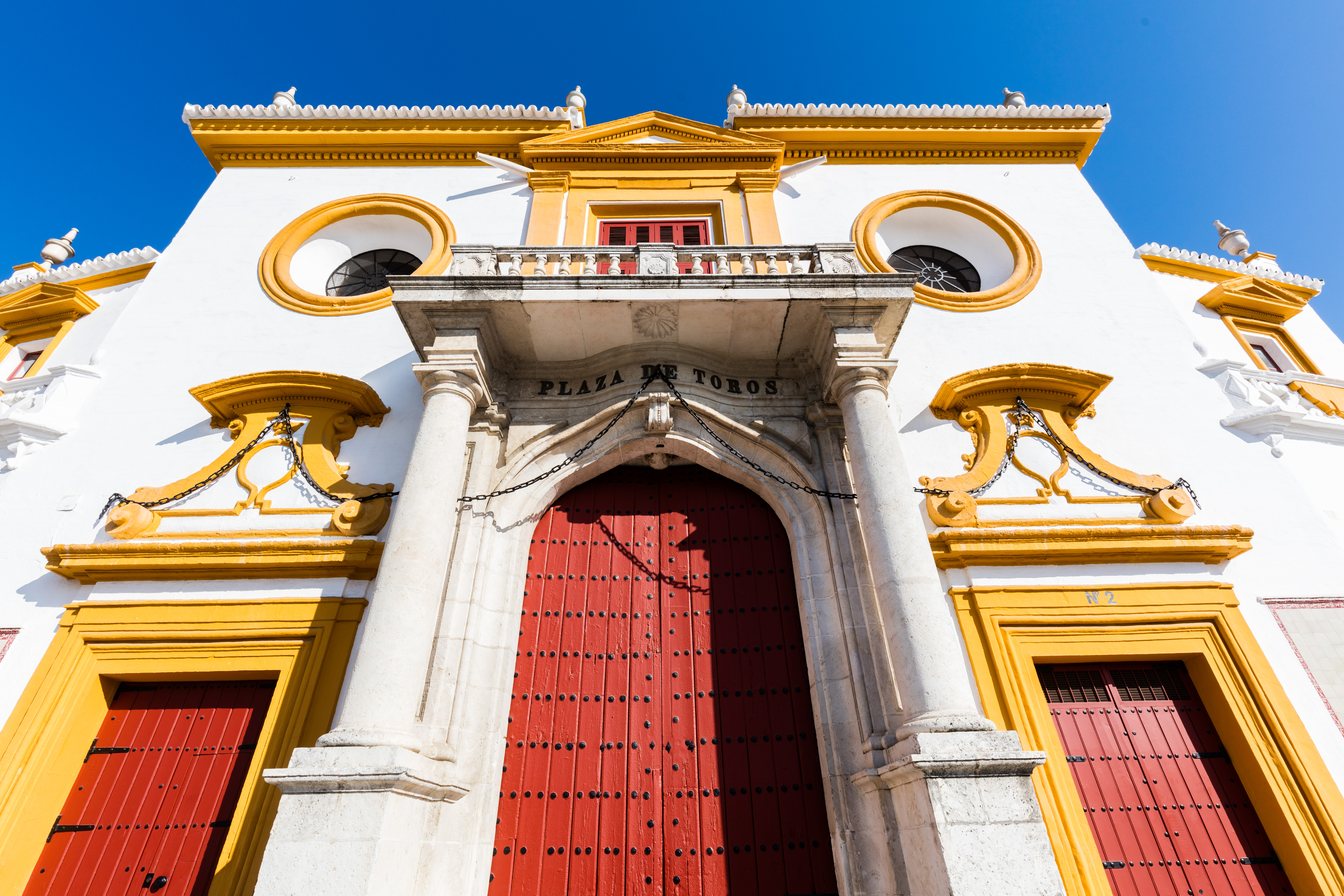 Maestranza bullring, Seville, Spain